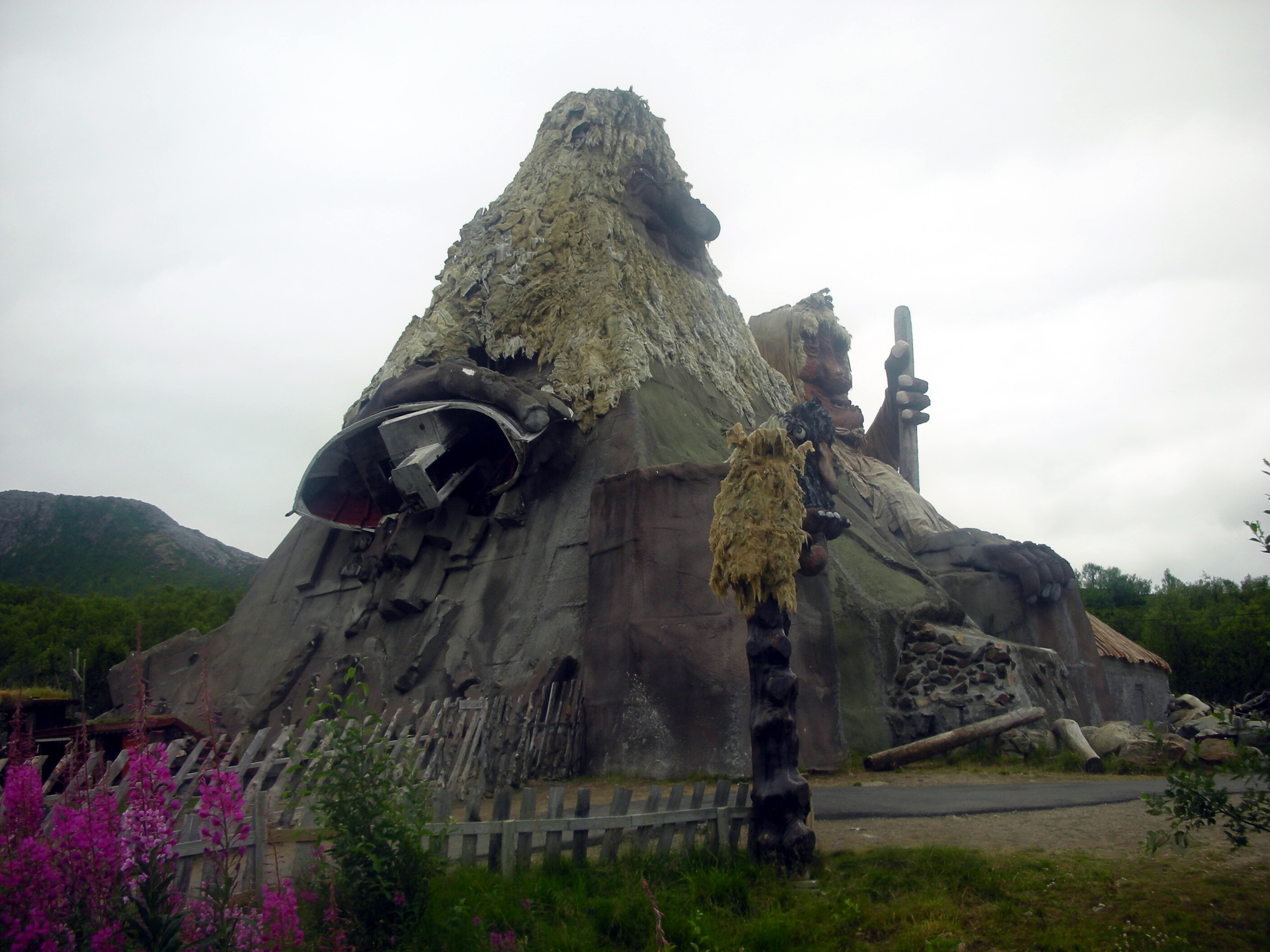 The fabled troll of the island Senja, the world`s largest troll, Norway. Picture is taken near Finnsæter, Senja.